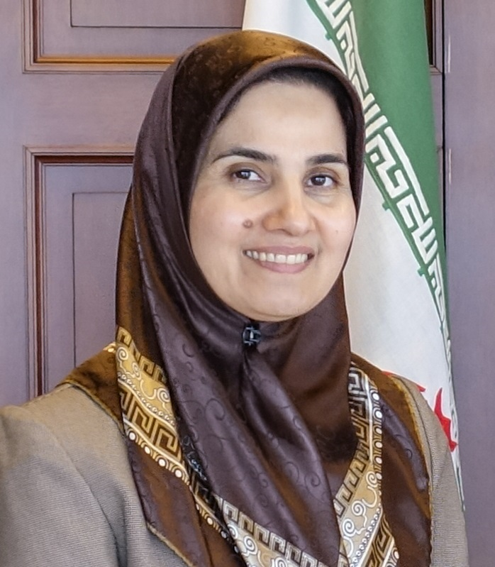 WIPO Director General Francis Gurry (right) met on February 25, 2019 with Iran's Vice President for Legal Affairs Laya Joneydi (left) to talk about the importance of intellectual property to the economy. Copyright: WIPO. Photo: Cécile Müller. This work is licensed under a Creative Commons Attribution-ShareAlike 3.0 IGO License.